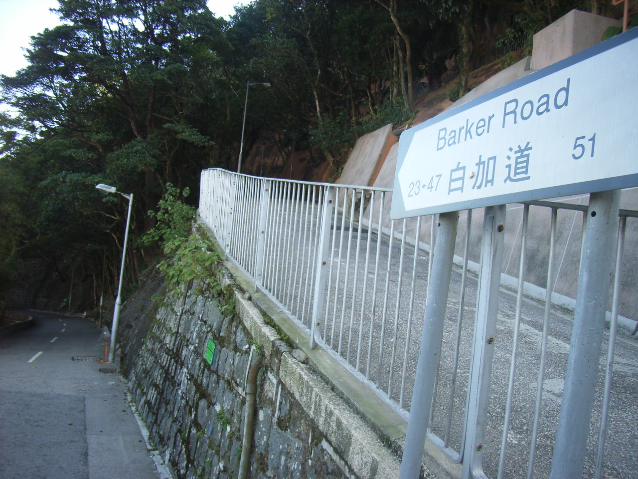 白加道 (Parker Road), Victoria Peak, Hong Kong Photographer and author is ParkerStarS.